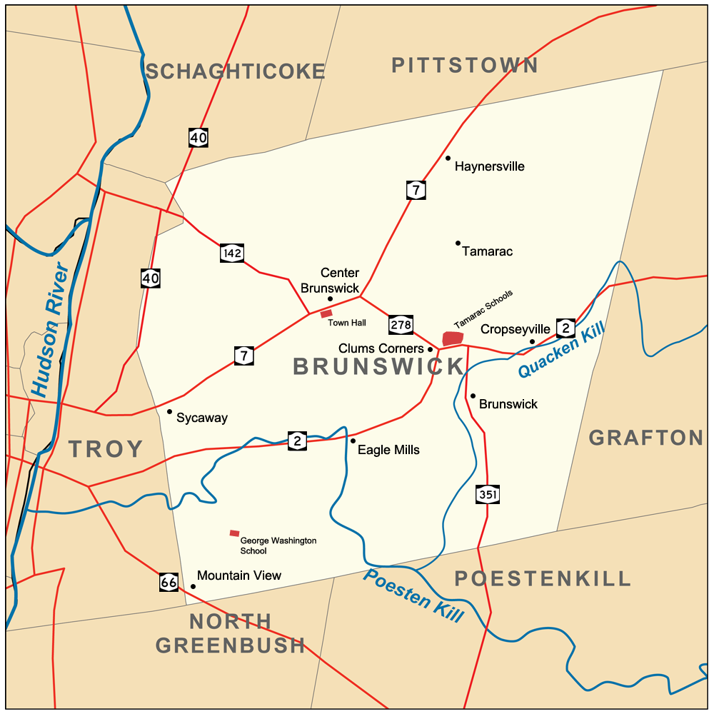 Map of Brunswick, New York, United States featuring hamlet, school, and town hall locations